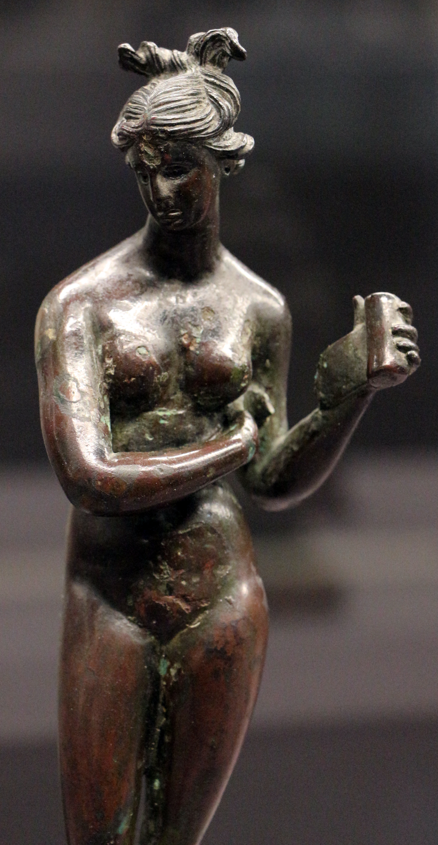 Ancient Roman bronze statuettes in the Museo archeologico nazionale (Florence)